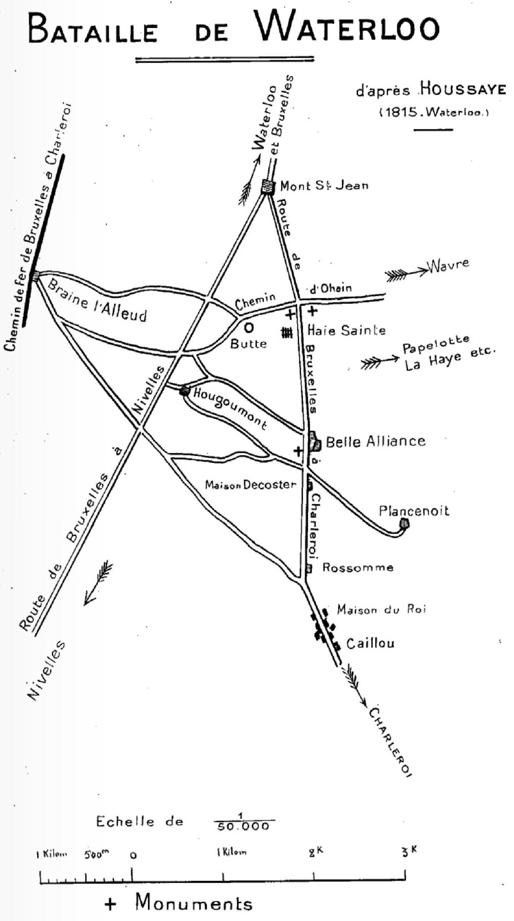 Sketch map of the Battle of Waterloo